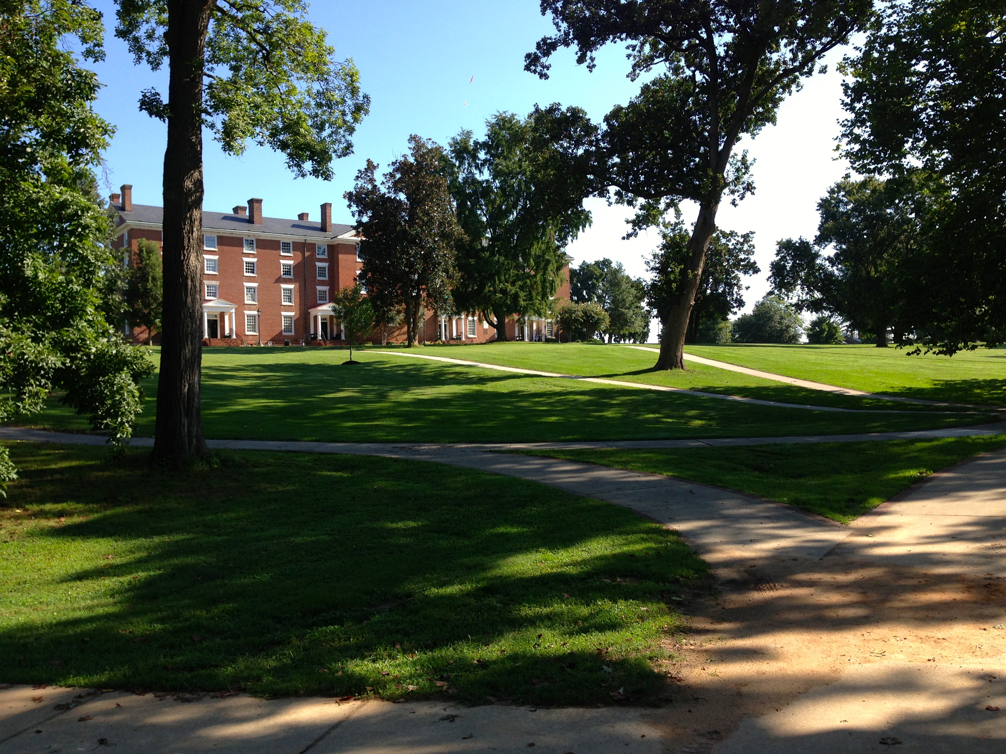 Hampden Sydney, Virginia